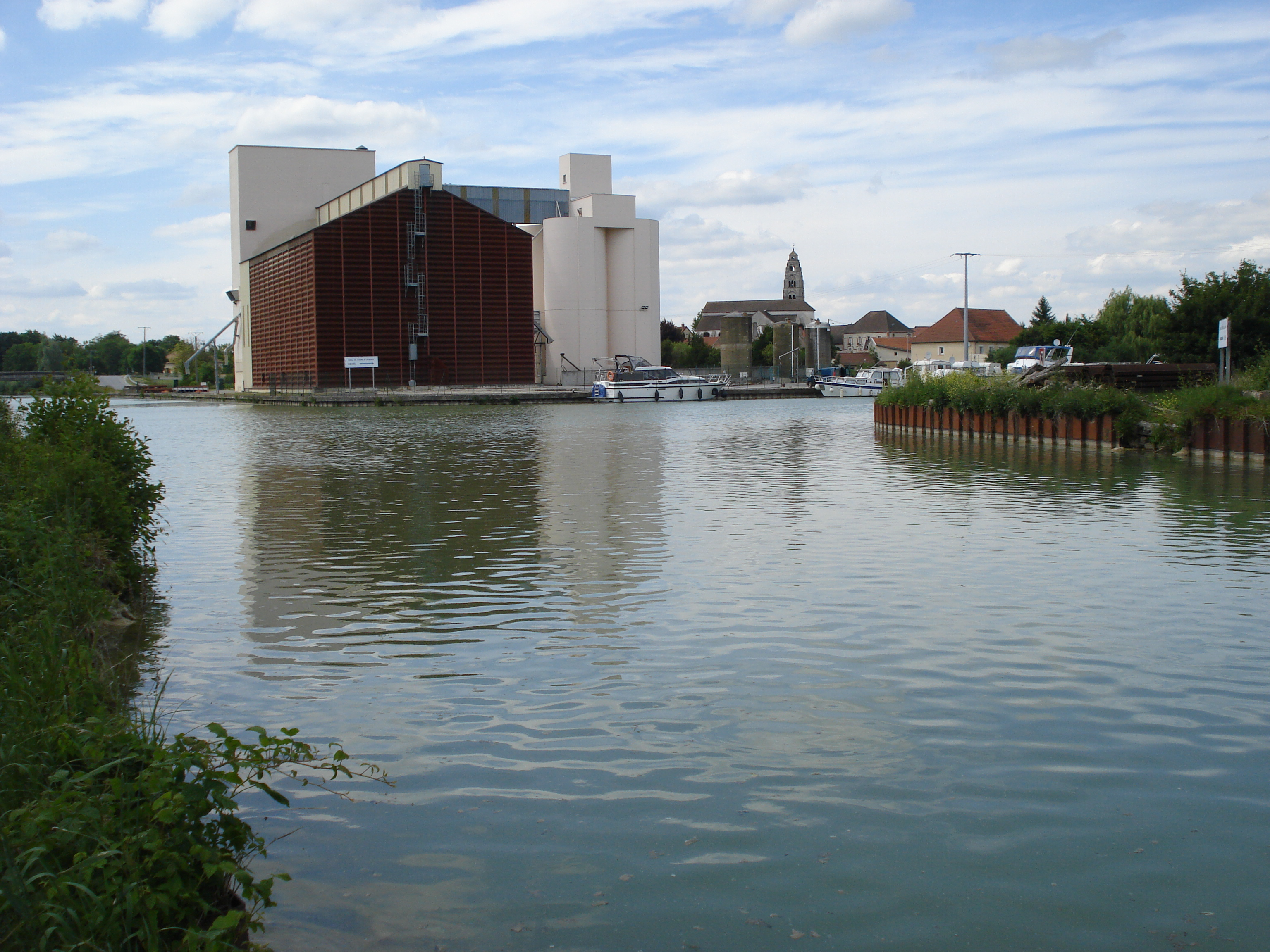 Condé-sur-Marne, jonction Canal de l'Aisne à la Marne - Canal latéral à la Marne